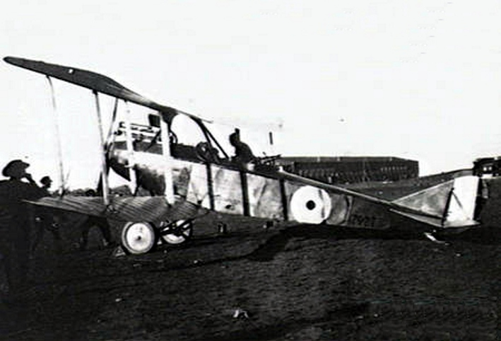 A captured German Rumpler C.VII reconnaissance aircraft (serial probably 17927).